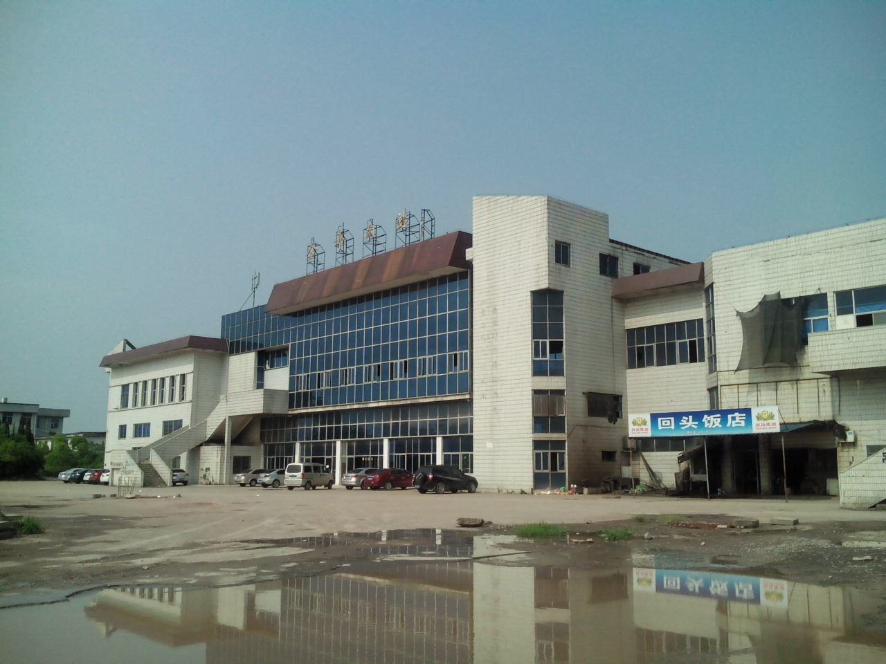 201504 Old Jinhuanan Railway Station